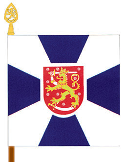 Colour of Guard Jaeger Regiment